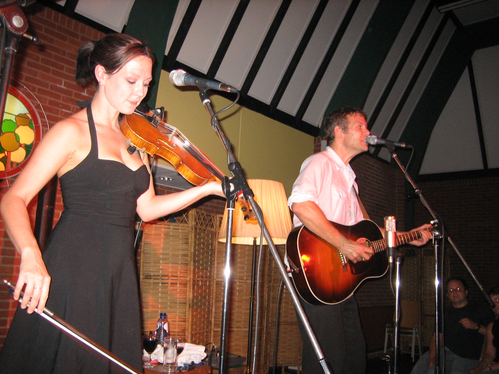 Amanda Shires & Rod Picott @ In the Woods, Lage Vuursche, The Netherlands (5 june 2007)